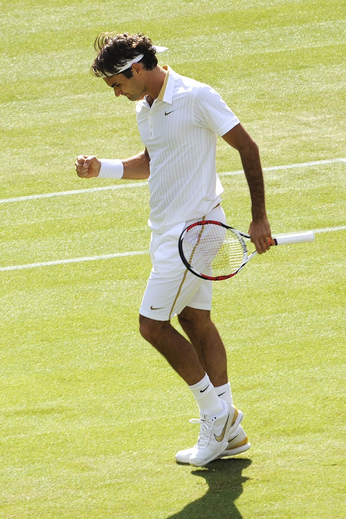 Roger Federer against Guillermo García-López in the 2009 Wimbledon Championships second round